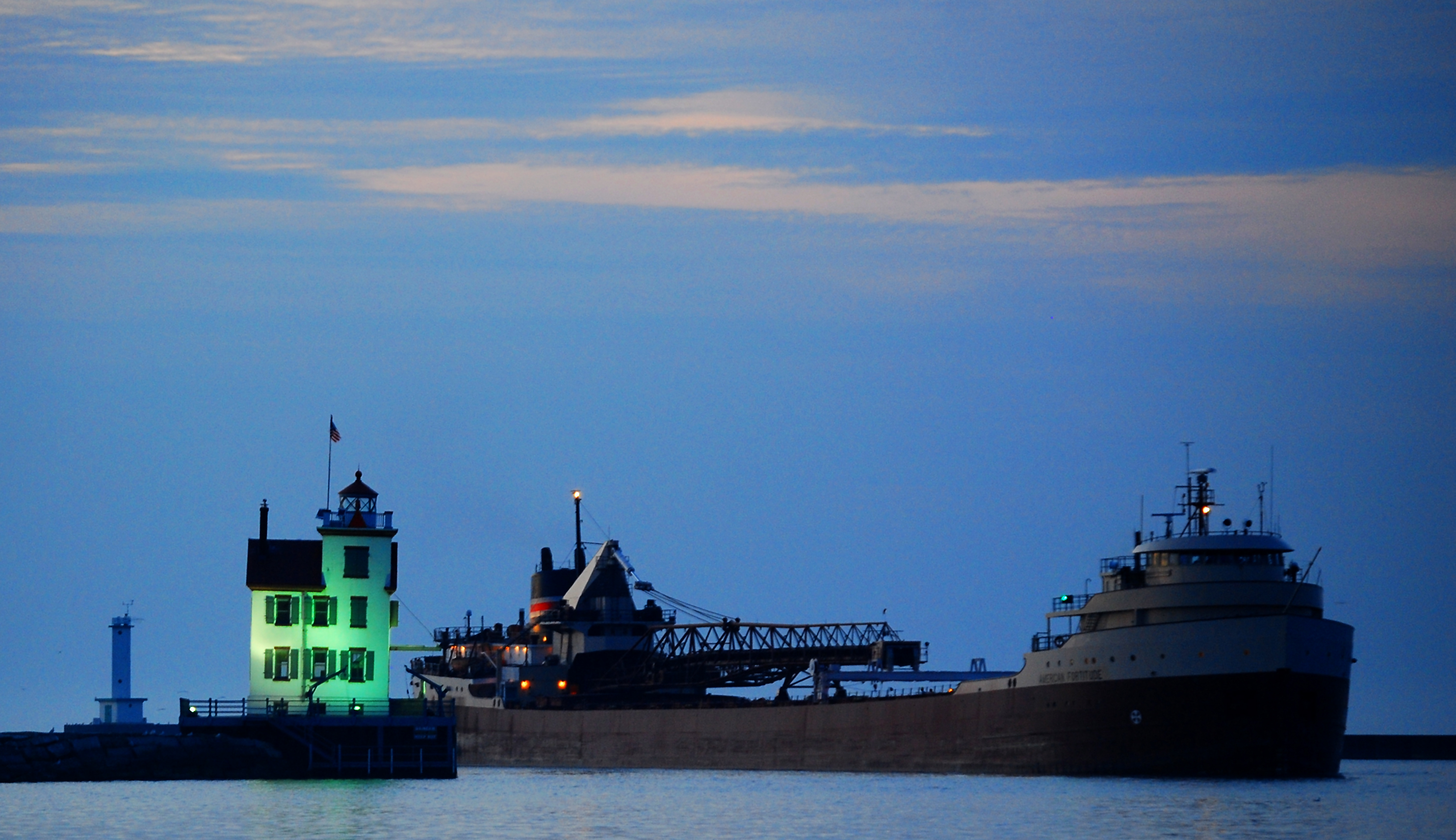 American Fortitude enters harbor at Lorain, Ohio